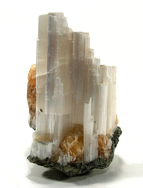 Ulexite, Calcite Locality: Boron, Kramer District, Kern County, California, USA (Locality at ) The borate deposits of California have produced some really beautiful/oddball mineral specimens. Few are as unusual as ulexite, also called "TV rock" for its fiber-optic-like optical properties. This particular matrix specimen is TERMINATED, something you almost NEVER see in the mineral; and it has superior prismatic luster and a pearlescent, white color. The longest crystal is 6 cm high. In association are some really neat golden, translucent calcite crystals to 1.0 cm in length. SUPERB FOR THE SPECIES AND VERY RARE as a specimen, instead of simply as cleavage masses! This specimen is 3-dimensional and complete all around 6.9 x 5 x 3.1 cm